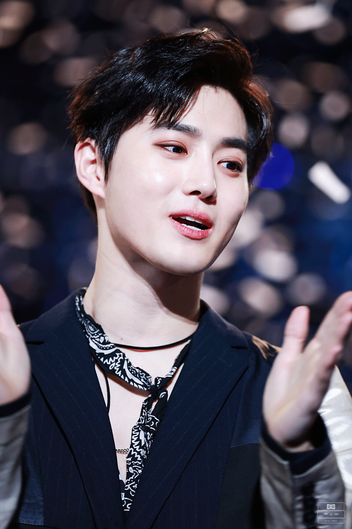 Suho at DMC Festival on October 8, 2016.